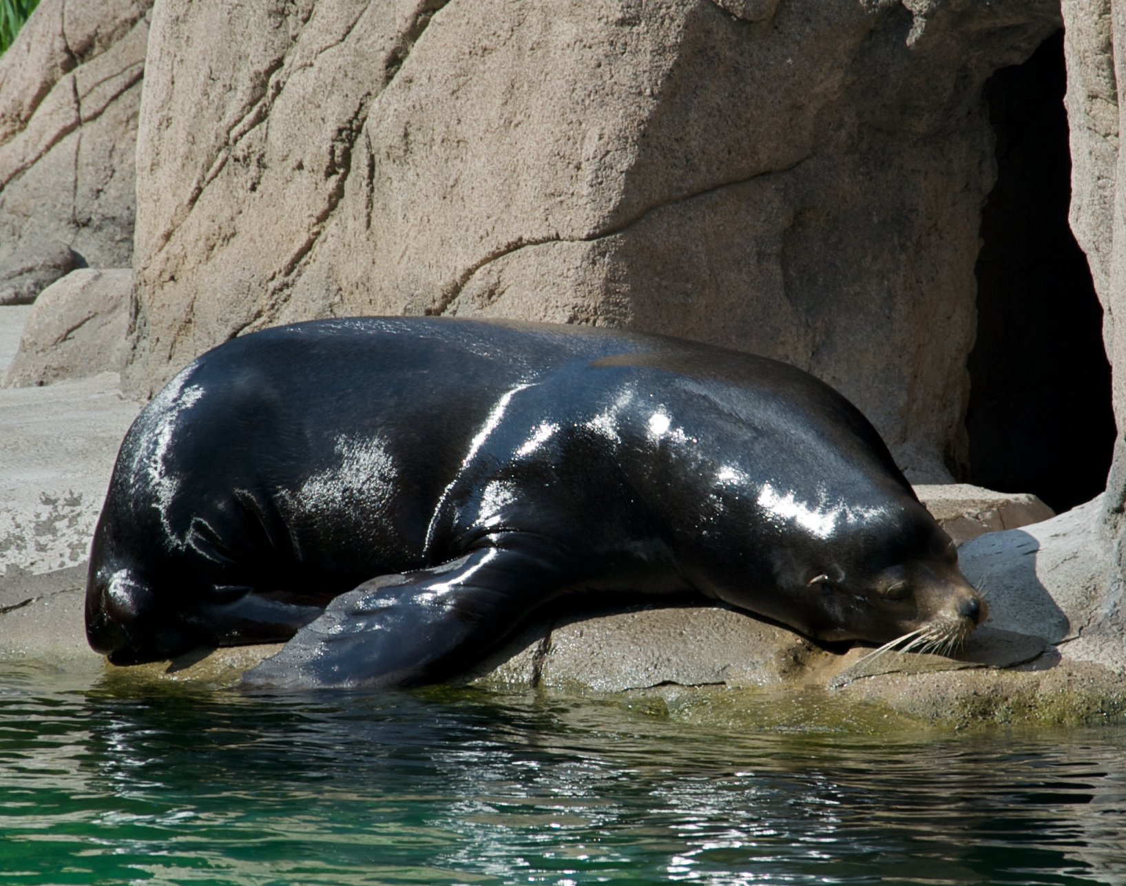 California Sea Lion at the Bronx Zoo. This is a cropped version of File:California Sea Lion Zalophus californianus at Bronx Zoo 2.jpg.